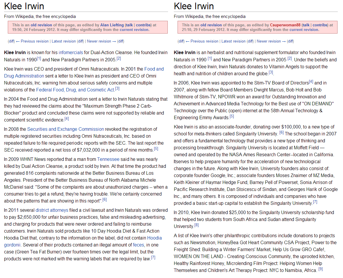 Two historical article versions of the Klee Irwin biography on the English Wikipedia, published under the CC BY-SA 3.0 licence, illustrating the risks inherent in Wikipedia's fundamental instability and the potential for bias